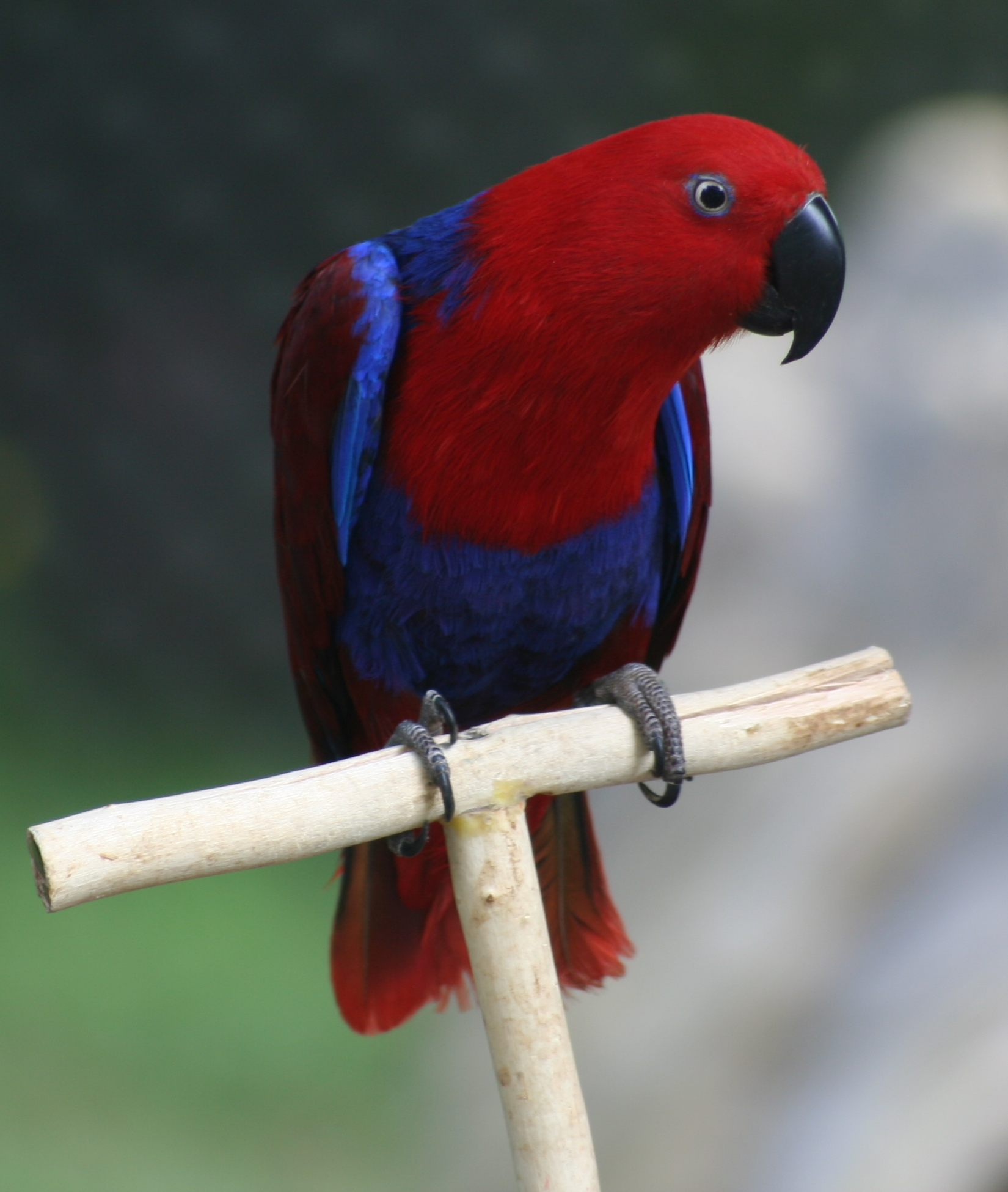 Female Eclectus Parrot (Eclectus roratus) at Rosamond Gifford Zoo, Syracuse. USA